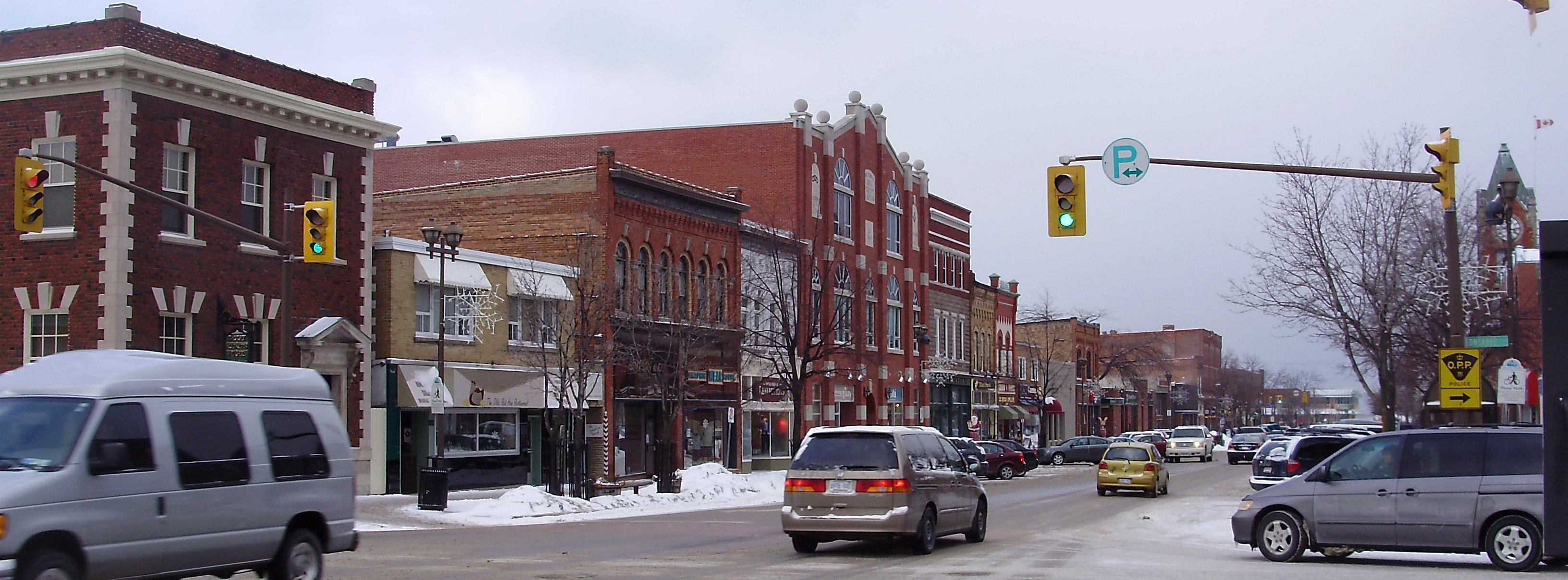 The intersection of Hurontario Street and Ontario Street after a snowfall in downtown Collingwood, Ontario, Canada.